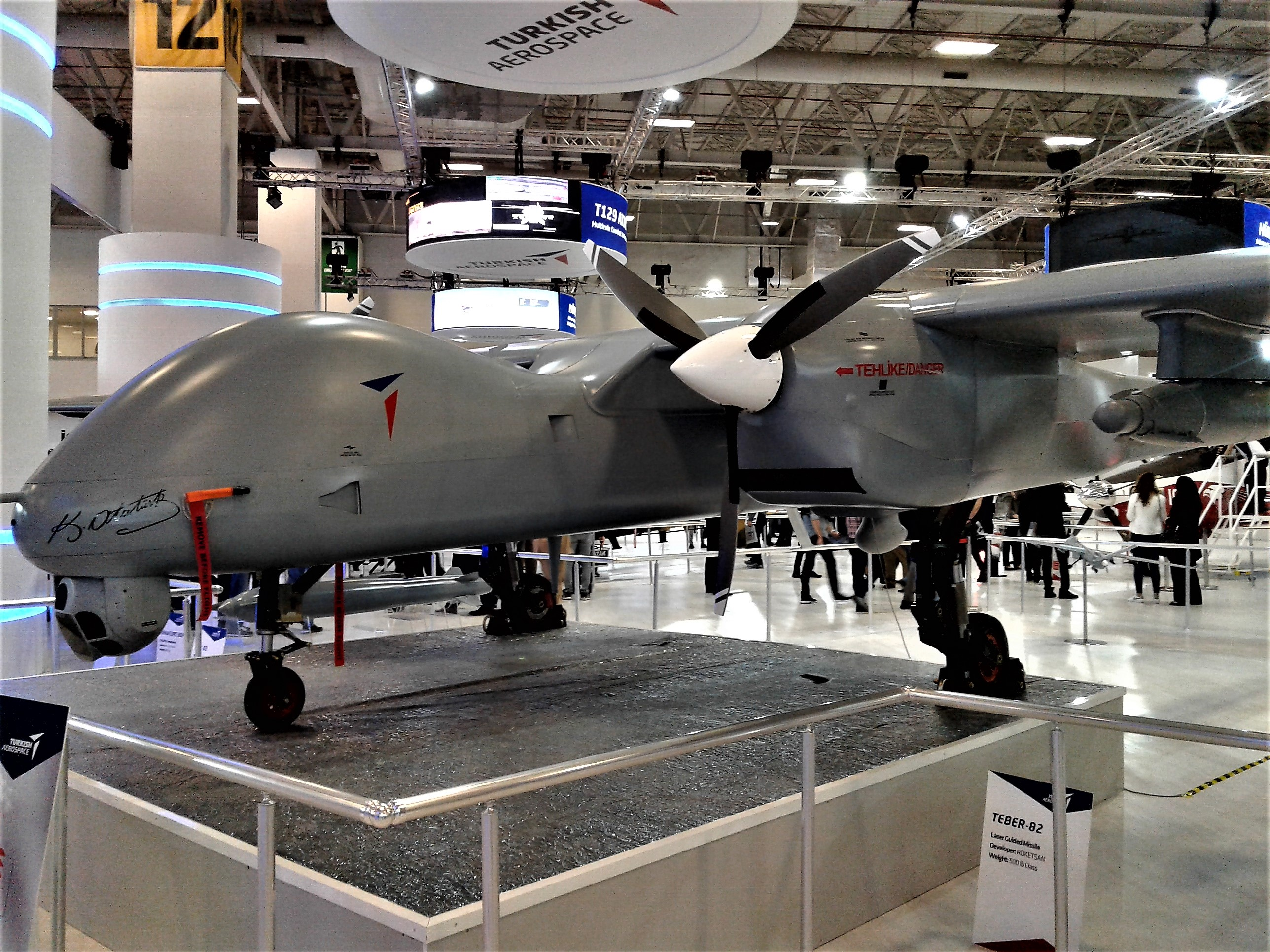 High payload capacity UAV TAI Aksungur at the IDEF 2019 in Istanbul, Turkey.